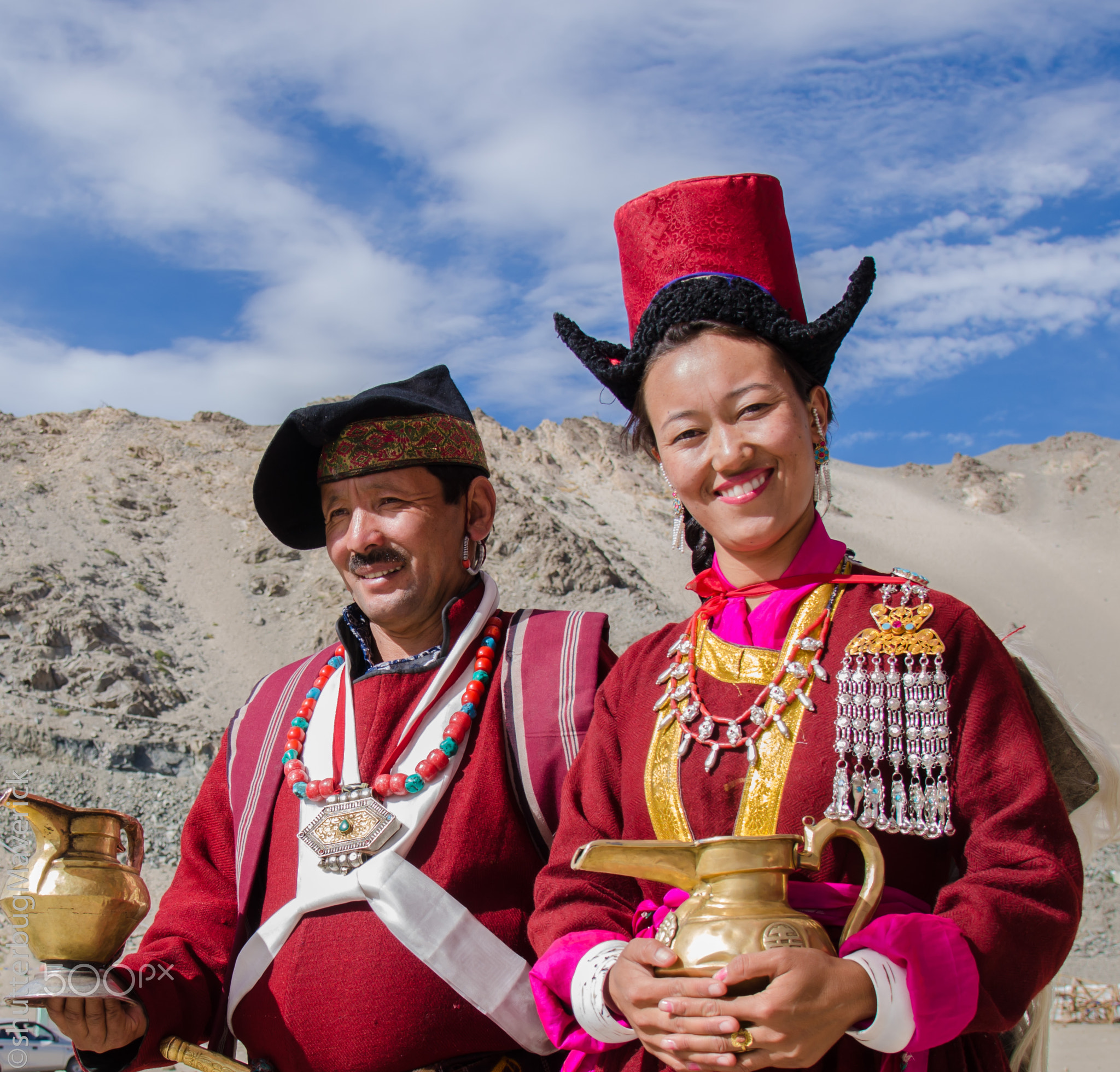 500px provided description: beautiful leh (india) laddakhi couple in their colorful attires [#people ,#travel ,#nikon ,#culture ,#india ,#ladakh ,#leh ,#kashmir ,#himalayas ,#incredibleindia ,#Lad?kh]